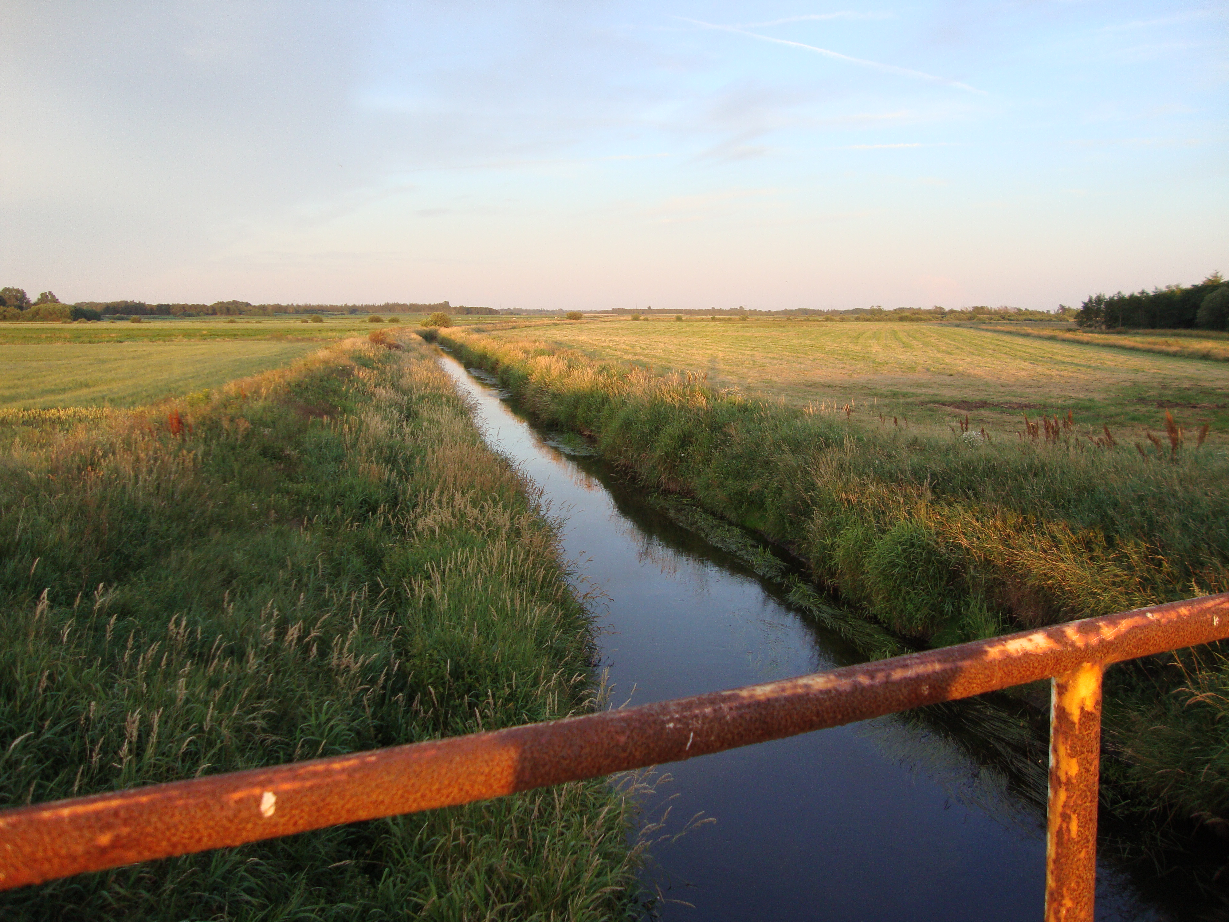 River of Ryå south of Hvilshøj, Vendsyssel, Denmark. Looking to the east, upstream.